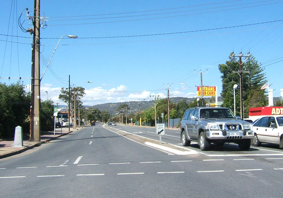 Looking east along Daws Road. Melrose Park is to the left (north), St Marys to the right (south)